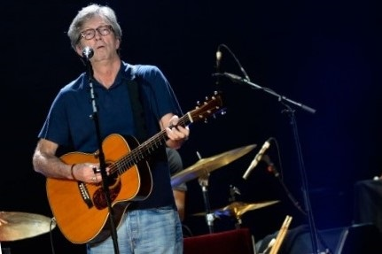 This is a picture I took during Eric Clapton's performance on June 19, 2013 during his 50th Celebration World Tour in Prague. It was the last concert of the tour.